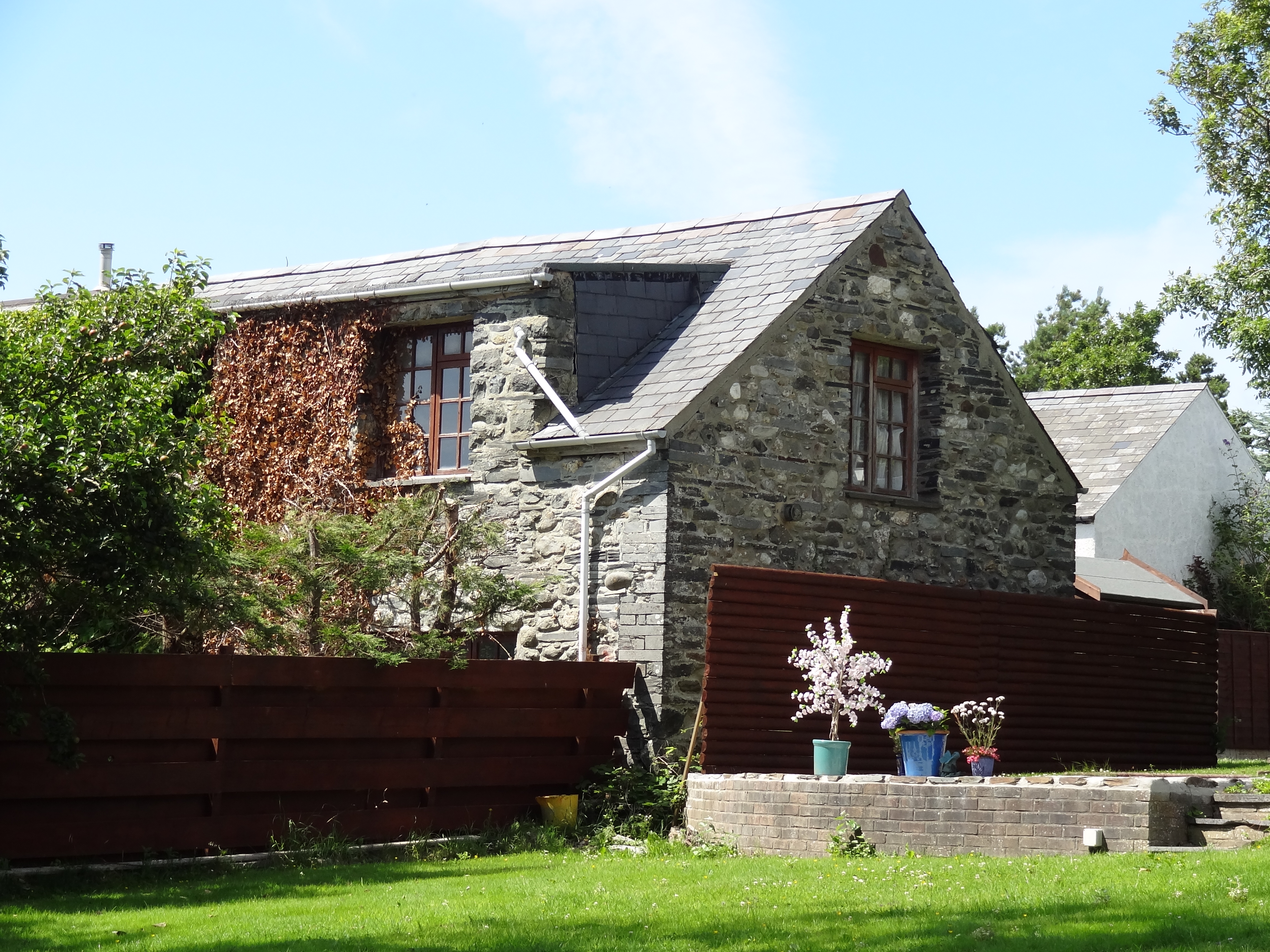 Faenol Isaf, Tywyn, Gwynedd: The Tithe Barn from the south west